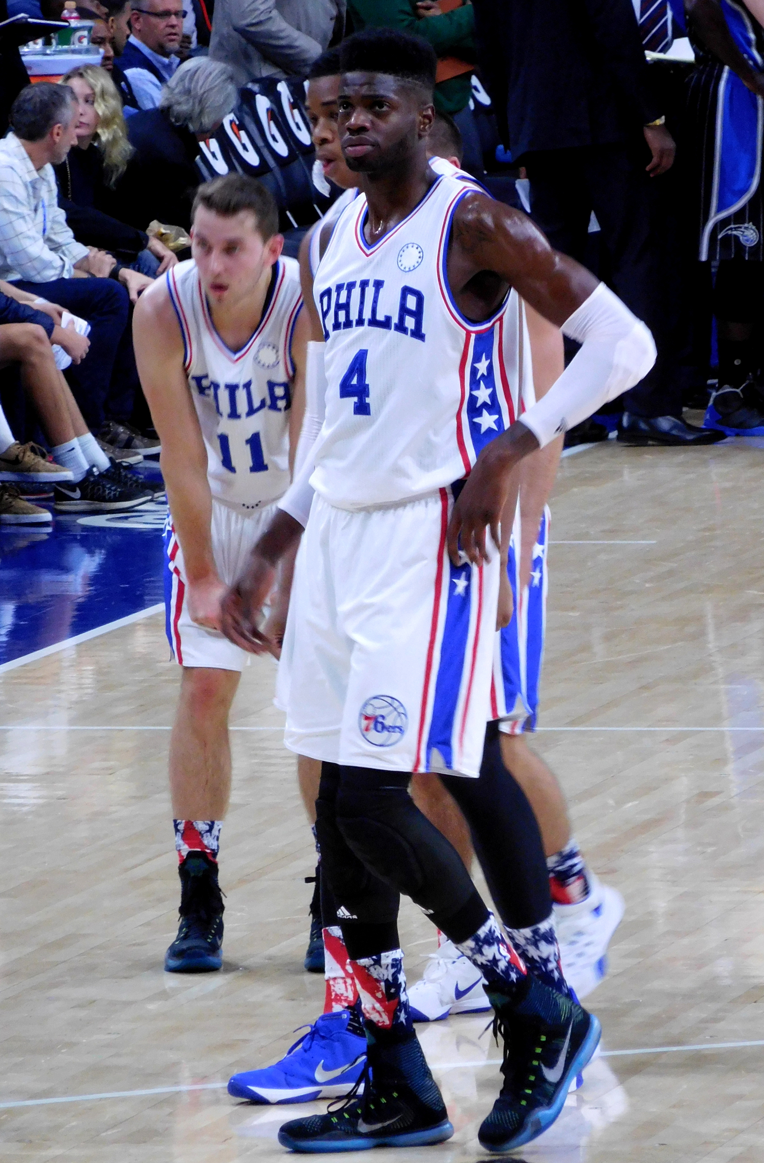 Nerlens Noel of the NBA's Philadelphia 76ers during a game against the Orlando Magic.